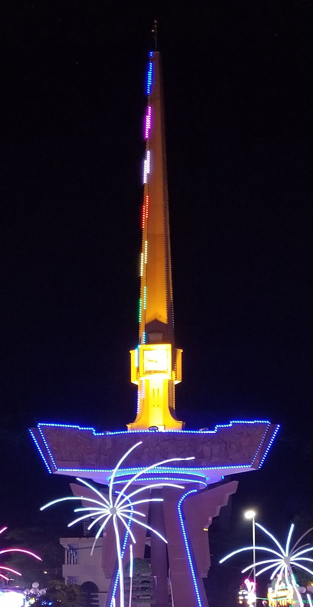 Clock Tower at Thu Dau Mot Six-way Intersection.